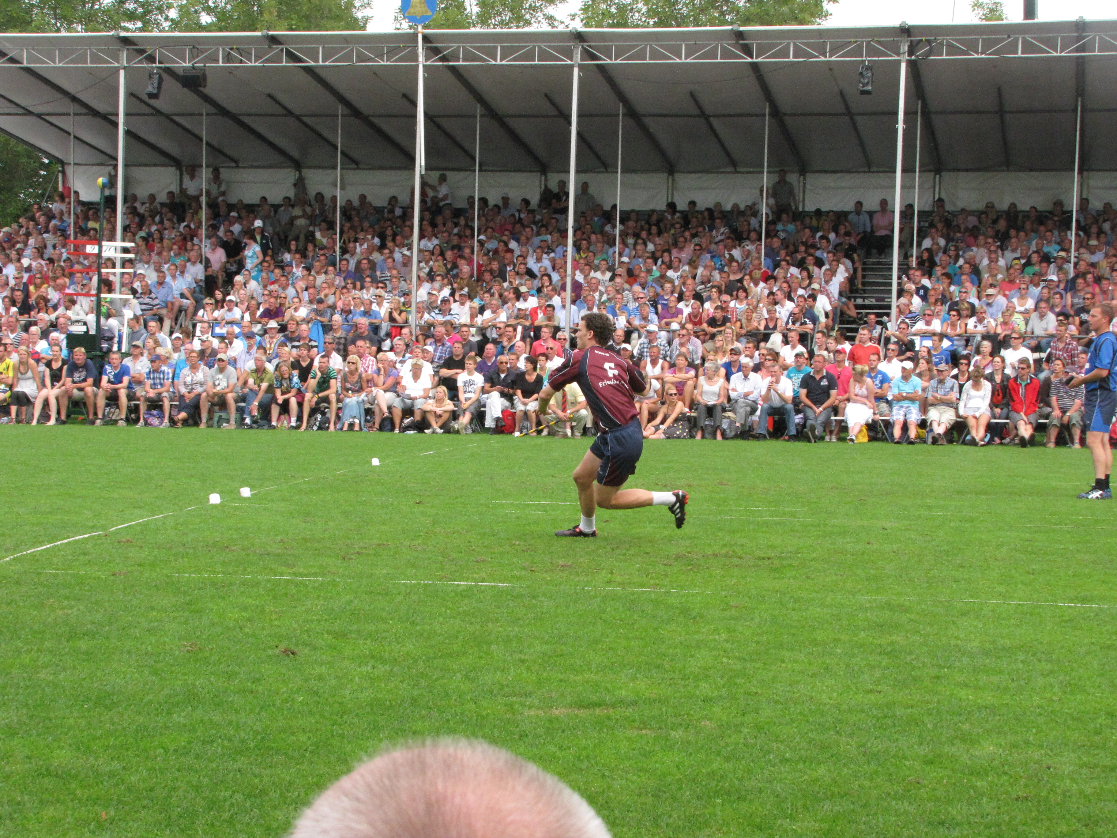 Taeke Triemstra in action on the PC of 2011Frysk: Taeke Triemstra yn aksje op de PC fan 2011